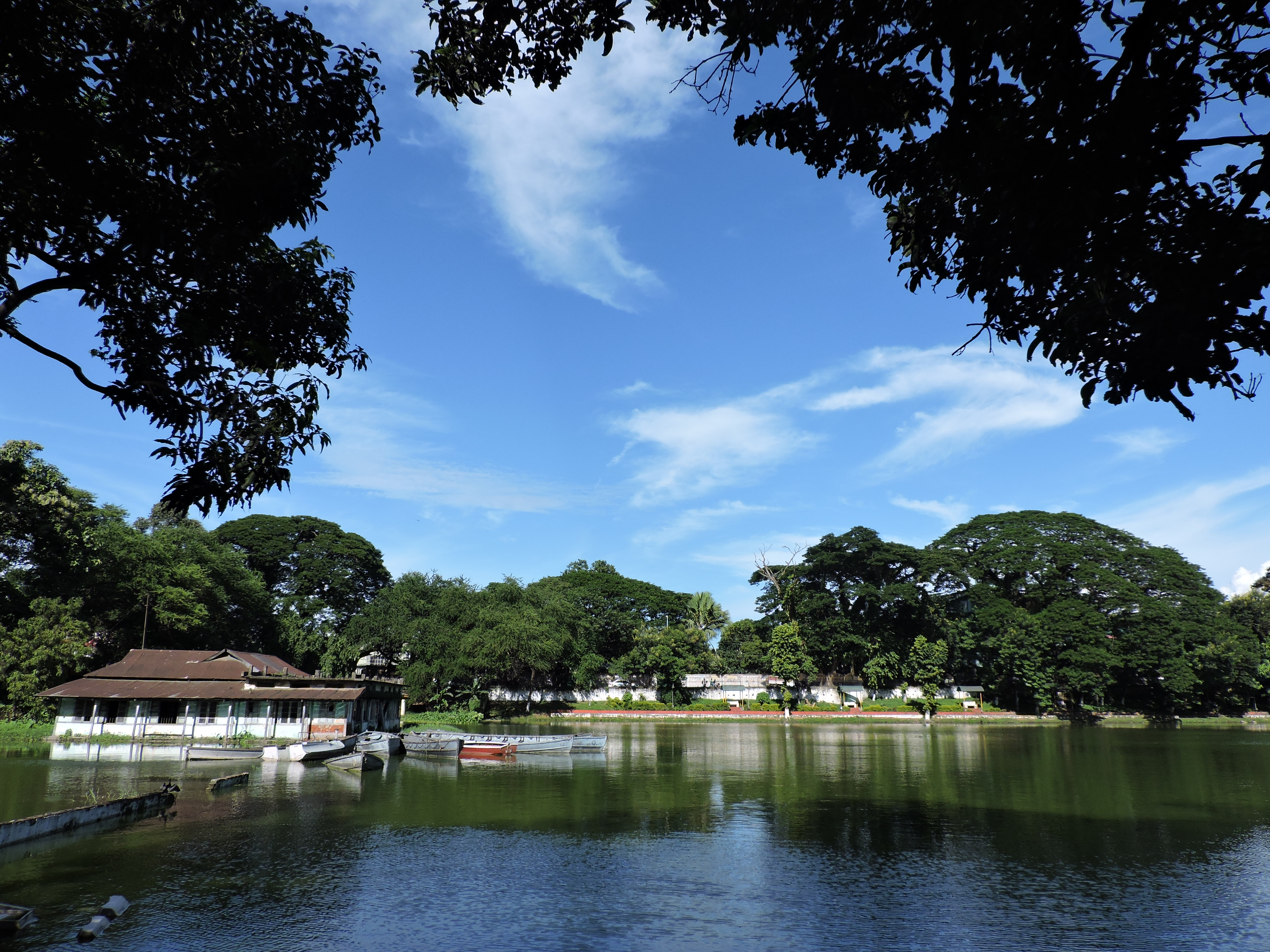 Dighalipukhuri, located in the heart of the Guwahati city was created by Bhagadatta by digging a canal from the Brahmaputra river. In historical times, it was used by the Ahoms as a naval yard. Its access to the Brahmaputra was eventually closed, and during colonial times, that portion was further filled on which the Circuit House was built. Later, the Gauhati High Court building too was built in the newly filled area. It is a beautiful pond and may be a good tourist spot to visit within the city.